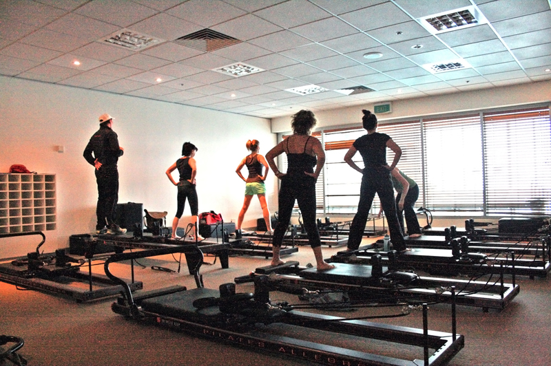 Pilates at a gym